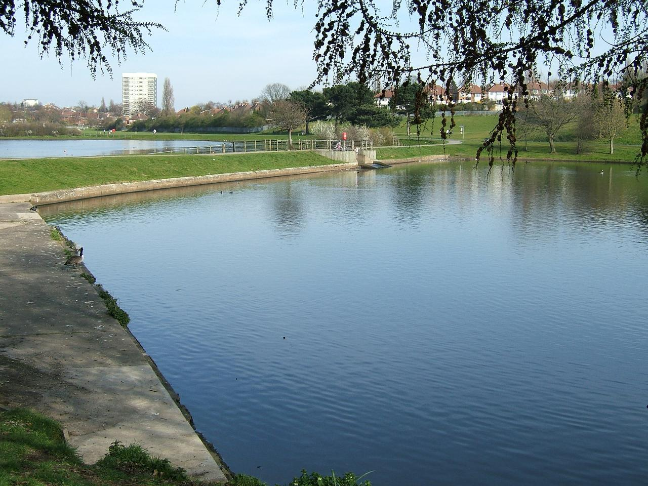 See where this picture was taken. [?]